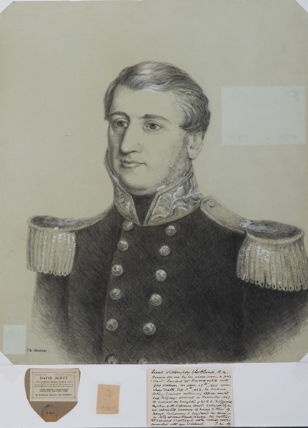 Willoughby Shortland (30 September 1804 – 7 October 1869) was a British naval officer and colonial administrator. Inscription: Lower left (l.l.) in ink: T.M. Hocken; label: Na Te Hakena Tenei Tiki; Dr Hocken’s collector’s chop: Hoc in Loco Deus Rupes; label in ink in Dr Hocken’s hand: Lieut. Willoughby Shortland, R.N., Drawn for me by his niece from a portrait. Landed at Kororareka with Gov. Hobson on Jan 29th 1840, upon whose death, Sept. 10th 1842 he became Acting-Governor, retaining office until Cap. Fitzroy’s arrival in December 1843. He married the daughter of Mr R.A. Fitzgerald, Registrar of the Supreme Court. Subsequently he was appointed Governor of Nevis and then of Tobago, Returning to England he died in 1869 at Portlands Devon. His brother Sir Edward Shortland wrote several books connected with New Zealand. T.M.H.; label: David Scott, Dunedin